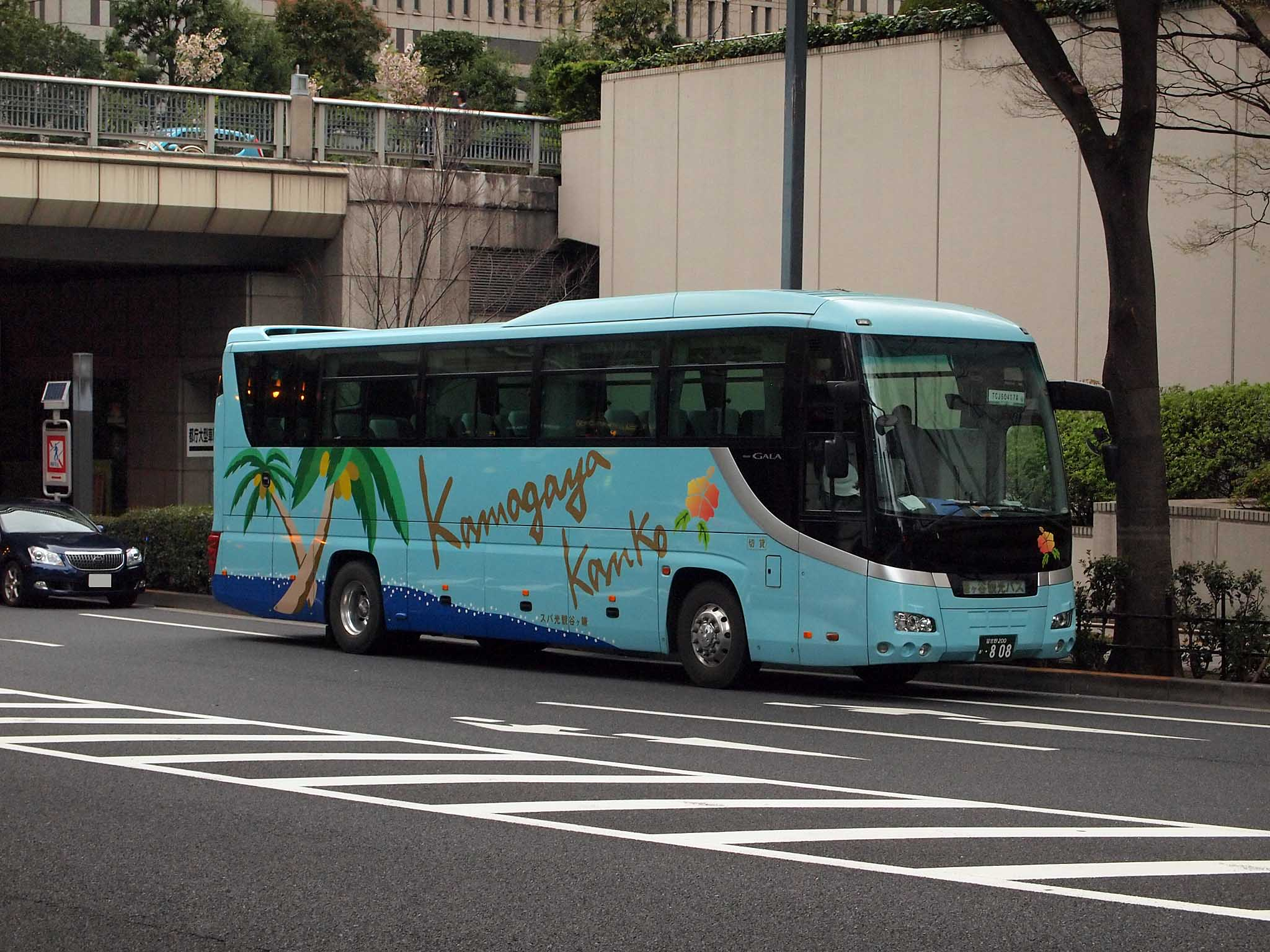 Fleet of Kamagaya Kanko Bus, for touring coach. Model: Isuzu Gala SHD RU1ESAJ License plate: CBN200 KA-808 Place: Nishi-Shinjuku, Shinjuku Ward, Tokyo Japan